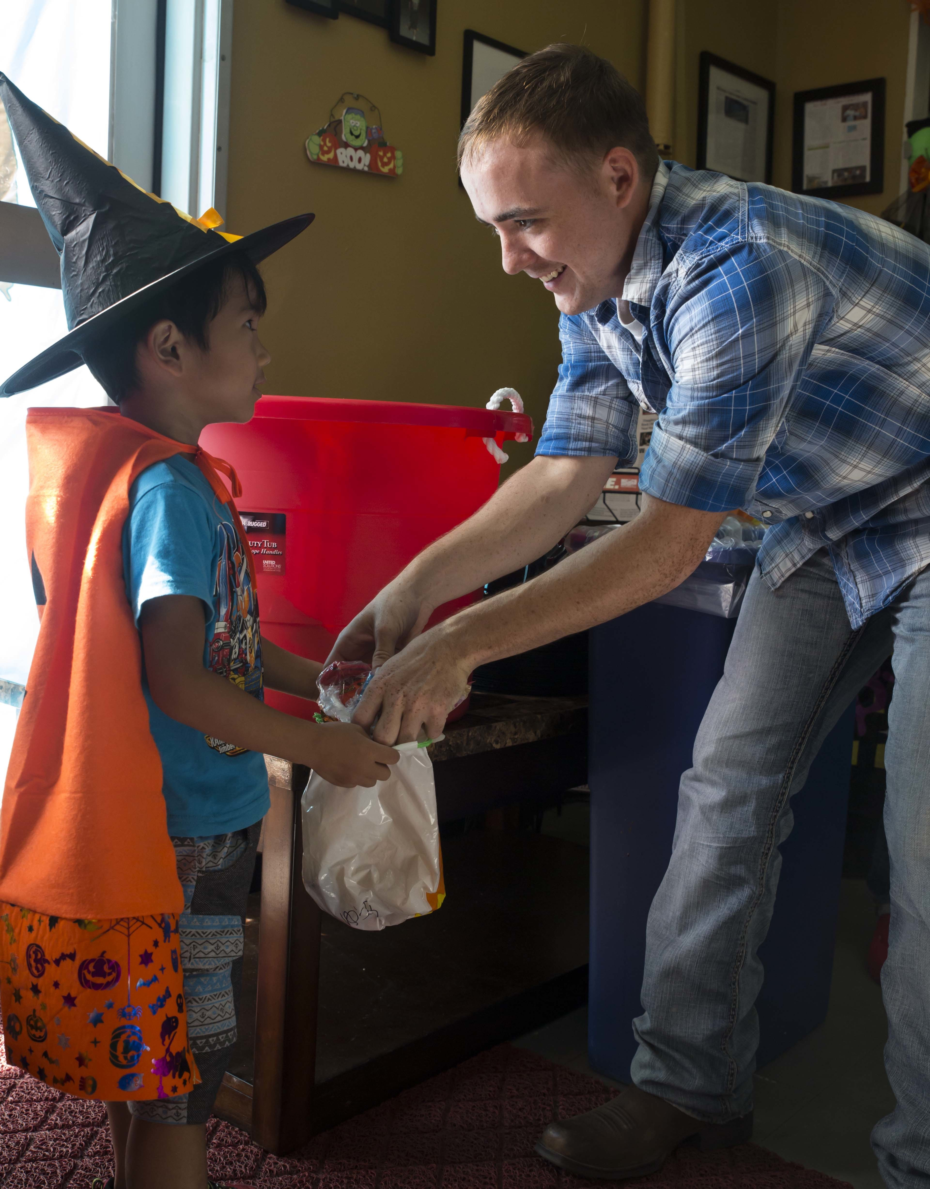 Seaman Johnathon Caulson from Willacoochee, Georgia, greets local preschoolers with candy bags Oct. 31 during the United Service Organization’s Halloween Party on Camp Hansen. The party consisted of candy, games and a bounce house. This was Camp Hansen’s USO’s second annual Halloween Party for the nearby preschools, service members and their families. The children are from surrounding schools including Sugi Noko Preschool, Kin Preschool and Namisato Preschool. Caulson is a corpsman with 1st Battalion, 1st Marine Regiment, currently assigned to 12th Marine Regiment, 3rd Marine Division, III Marine Expeditionary Force. (U.S. Marine Corps photo by Lance Cpl. Rebecca Elmy/Released)